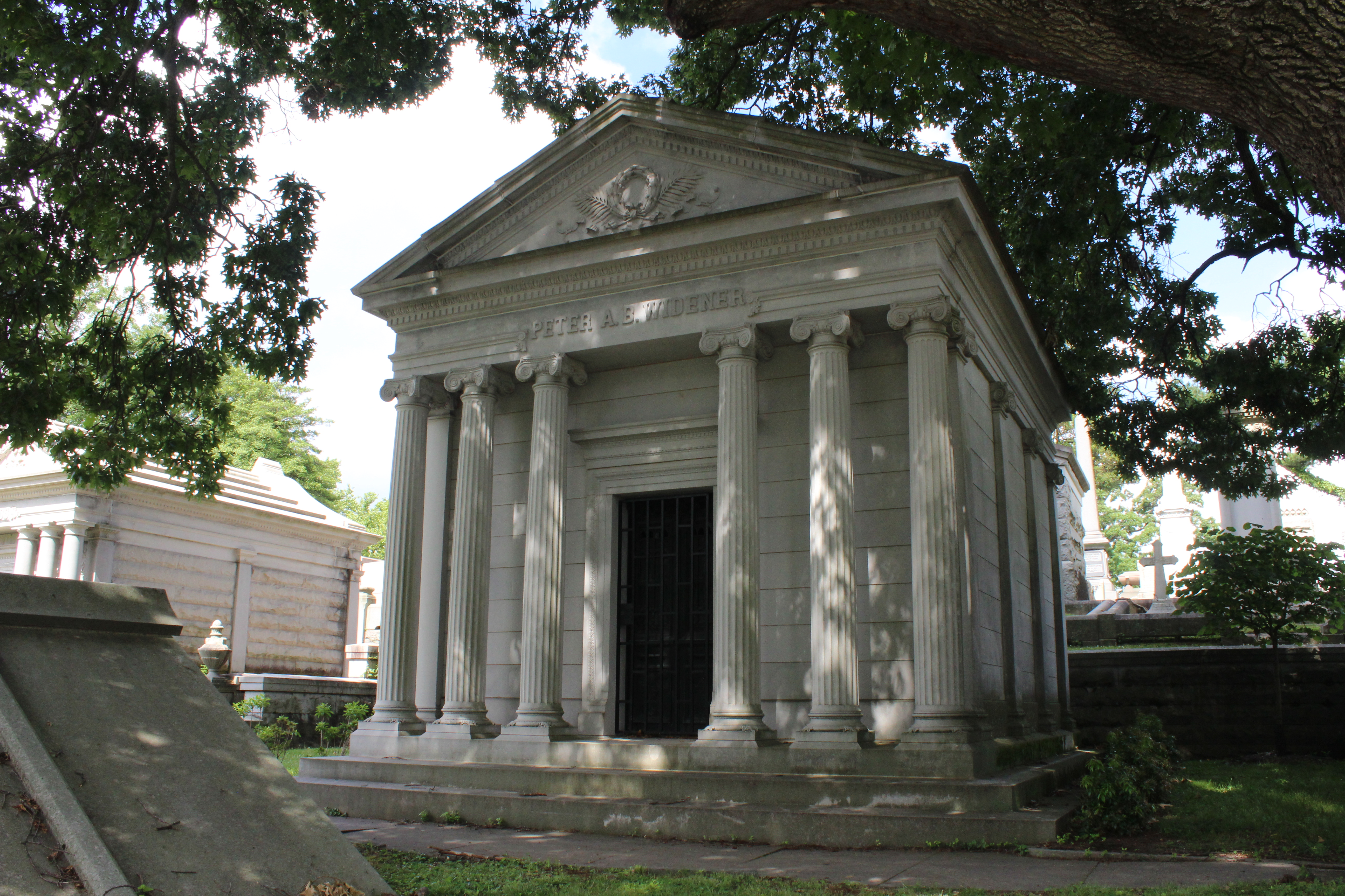 Peter Widener Mausoleum in Laurel Hill Cemetery. Photo taken June 2020.